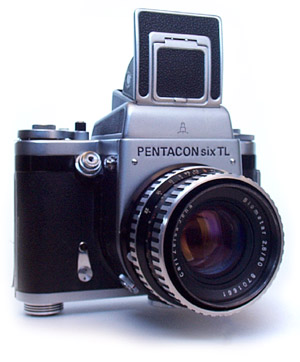 Author: John Kahrs